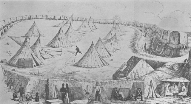 British camp at Port Natal during the siege by voortrekkers under the command of Andries Pretorius.